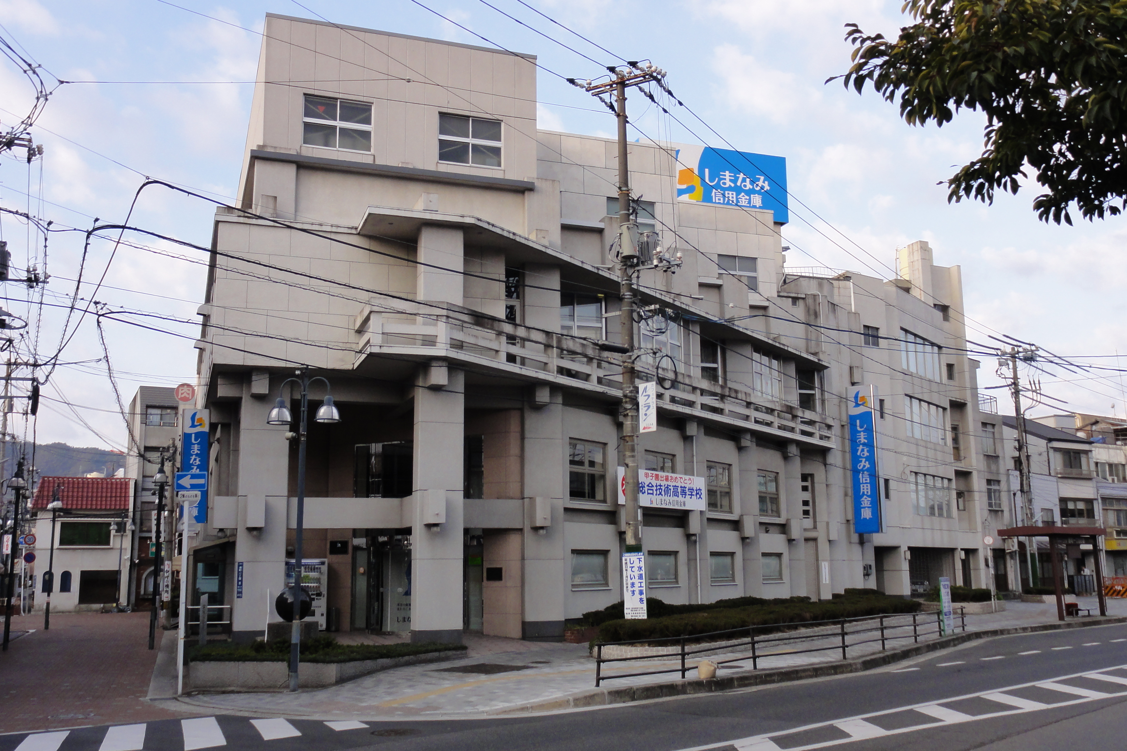 Shimanami Shinkin bank(Headquarters),Hiroshima Pref., Japan